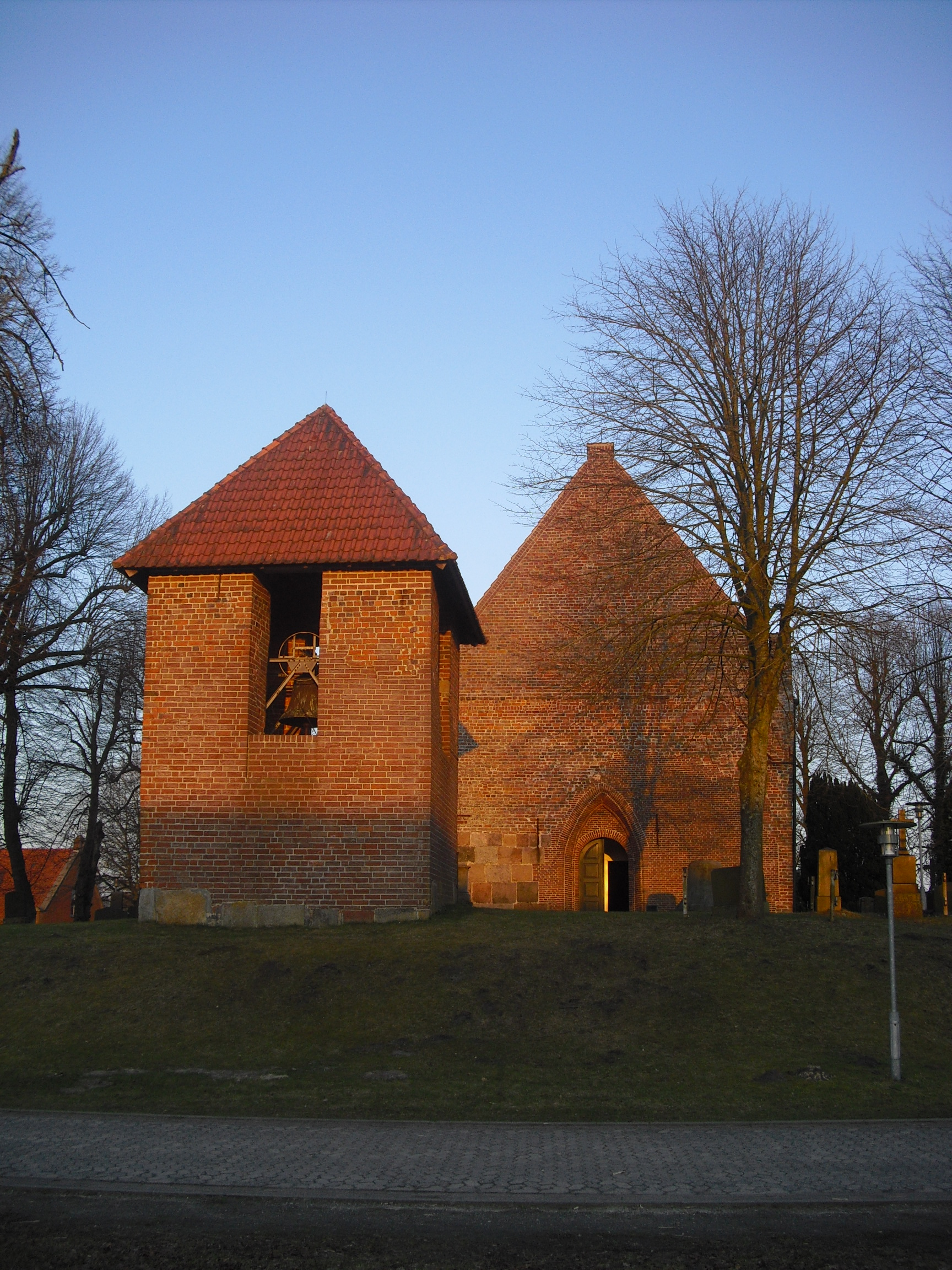 Lutheran Church of Leerhafe (City of Wittmund), Germany